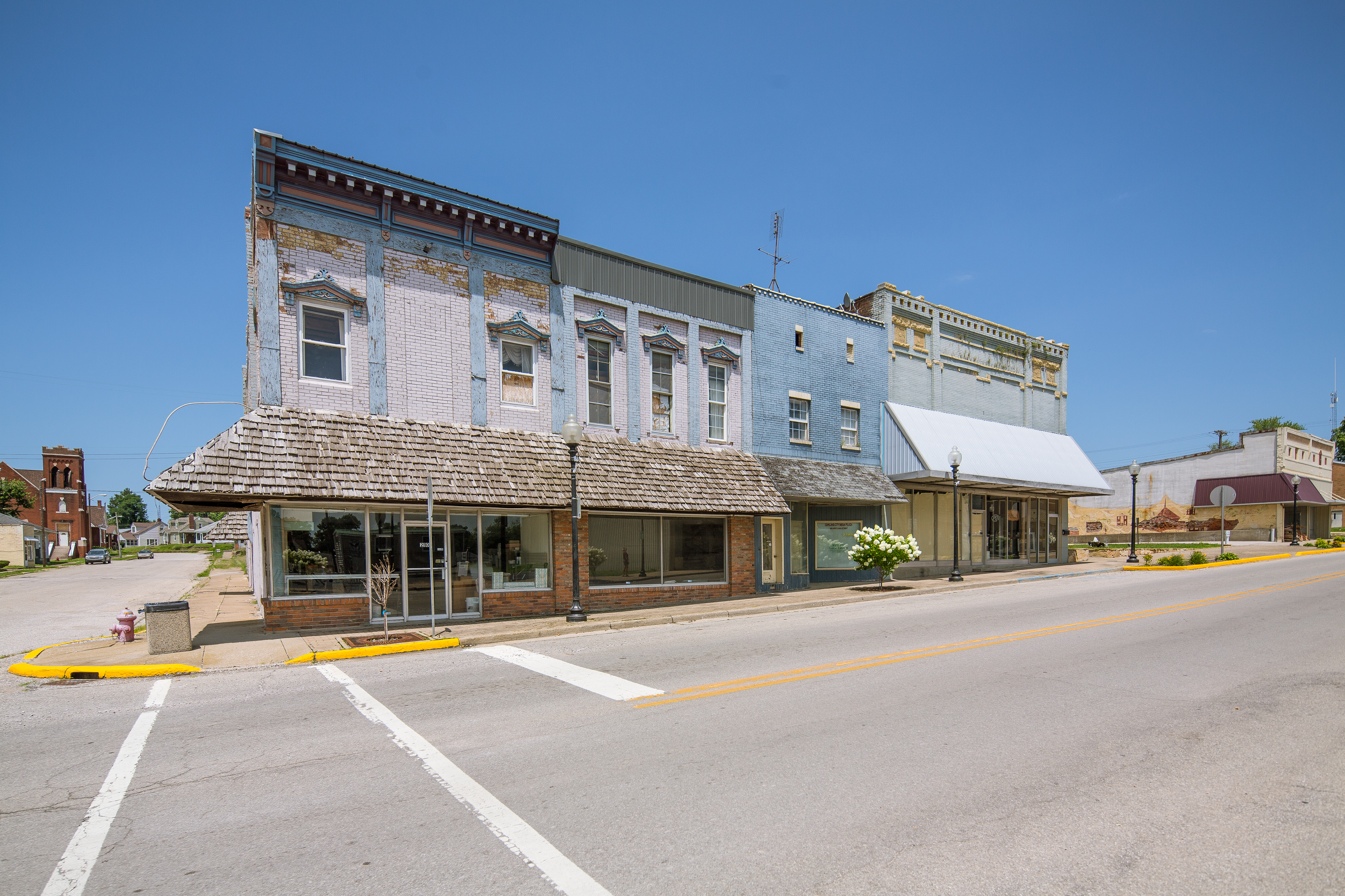 Photo from Small Town Indiana photo survey.